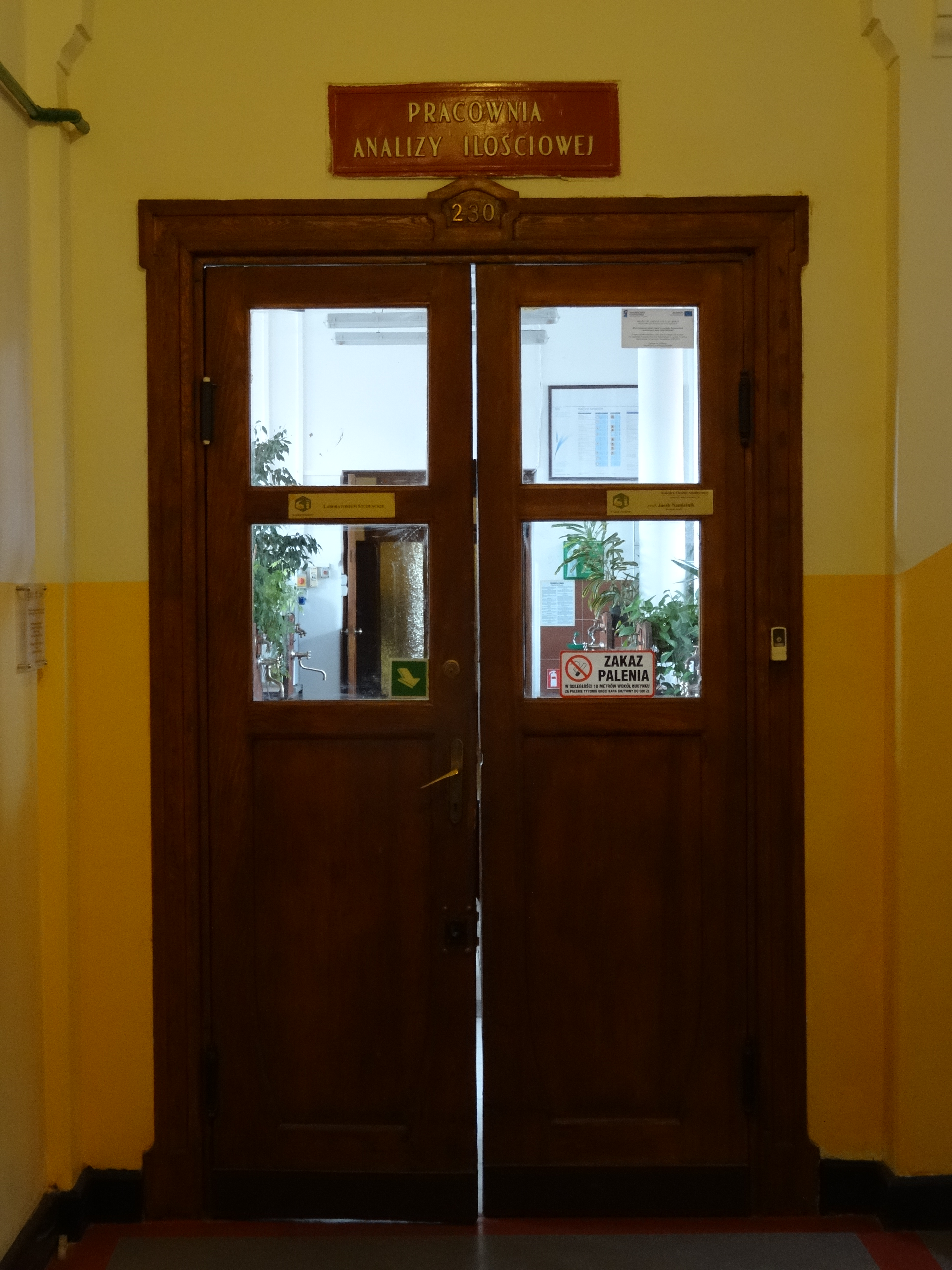 Analytical Chemistry Dept Gdansk University of Technology, entrance